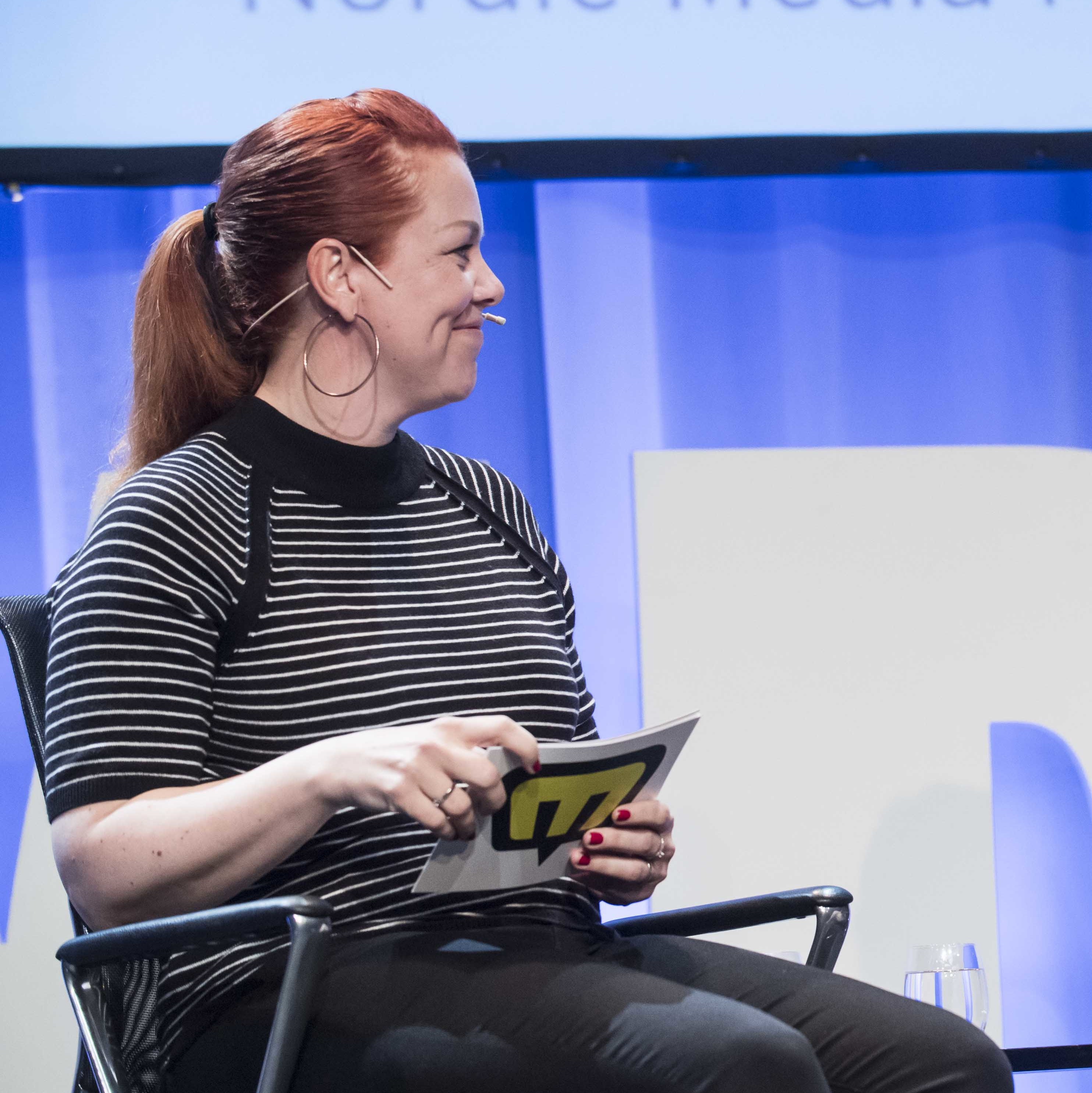 The Crown En andeledes historietime med Suzanne MackieModerator Cecilie Asker